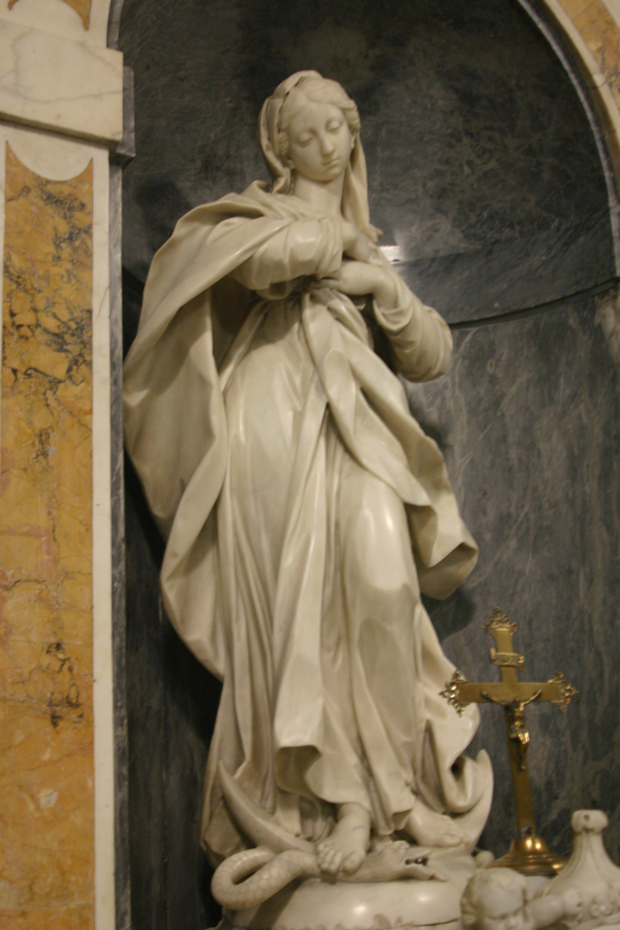 Statue of the Holy Virgin "Immacolata" by Giovanni Antonio Cybei, Carrara, Hospital